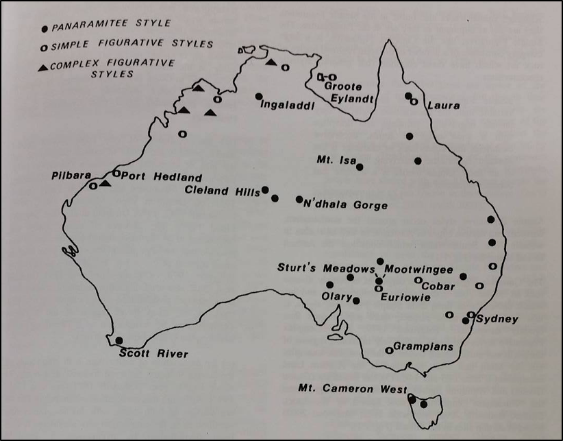 A map of Australia showing the location of sites containing Panaramitee Style rock engravings.